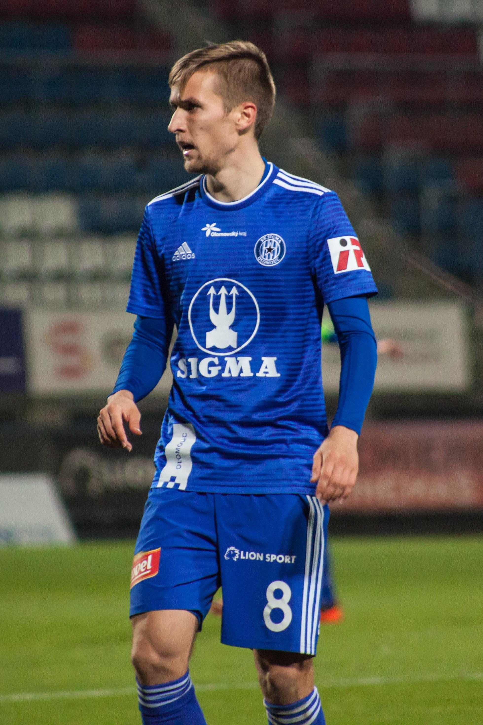 David Houska At Czech cup (MOL Cup) match SK Sigma Olomouc-FC Fastav Zlín played on 15 November 2018